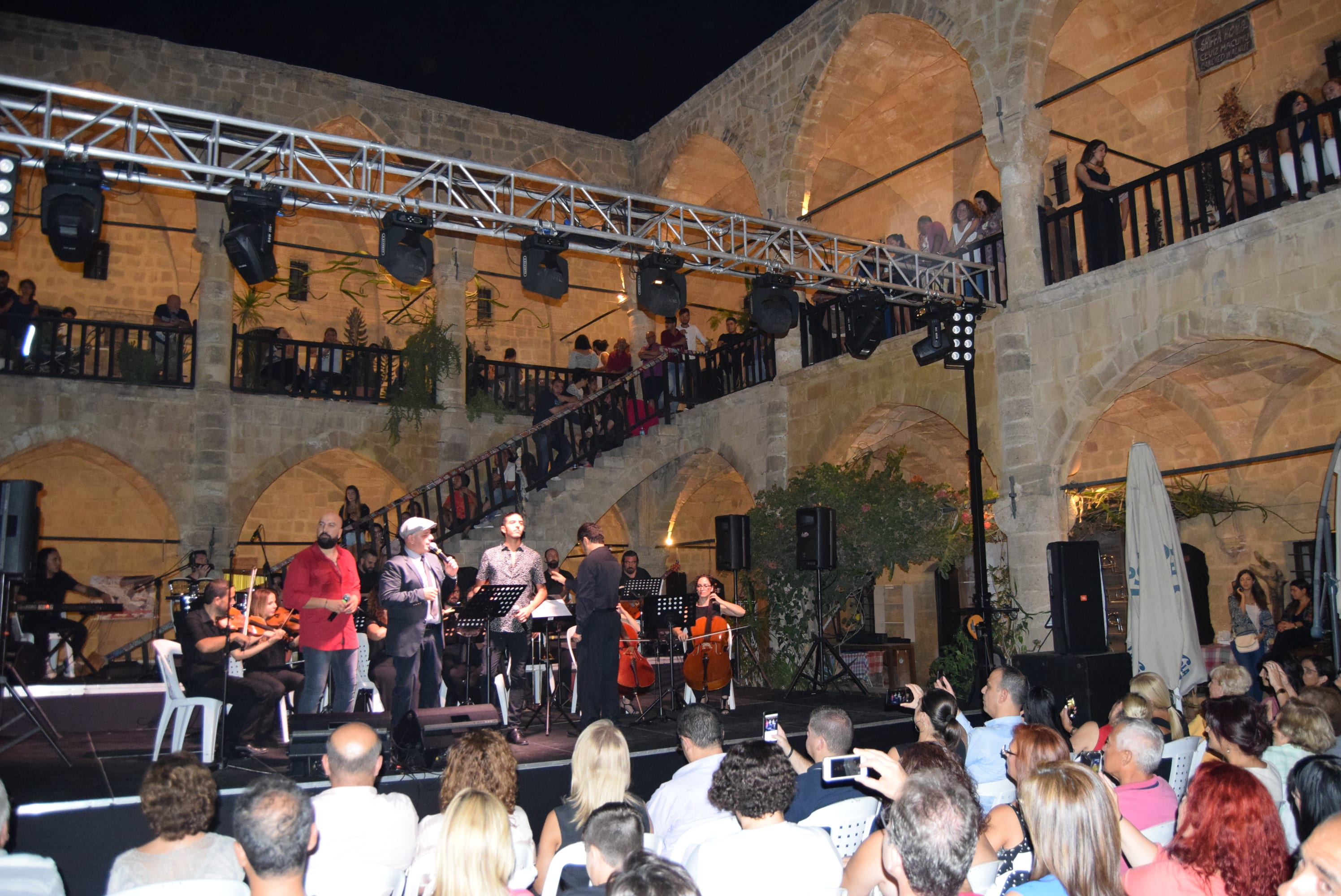 Concert of the Nicosia Municipal Orchestra featuring Fikri Karayel and Ahmet Evan in Büyük Han